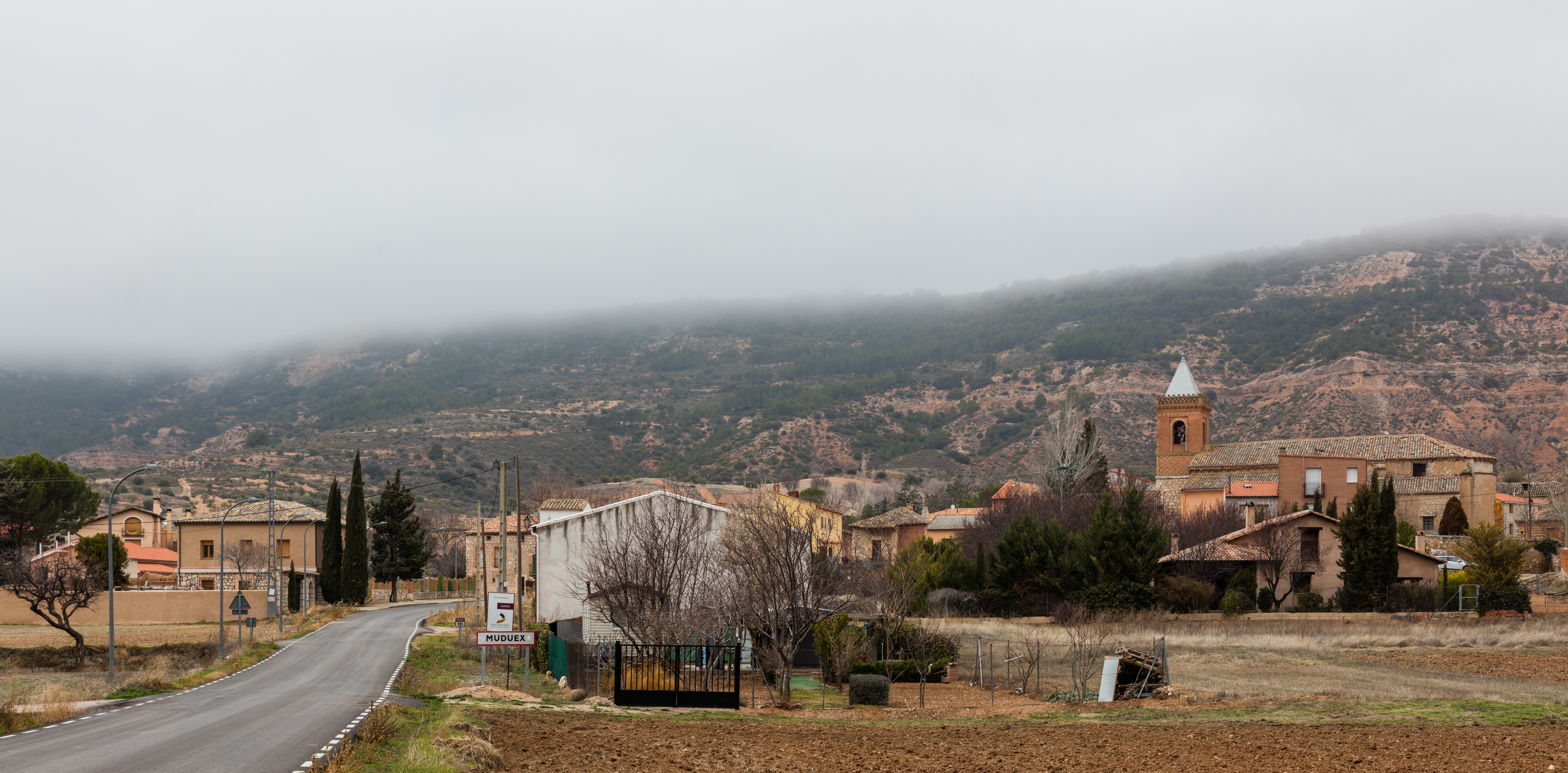 Muduex, Guadalajara, Spain